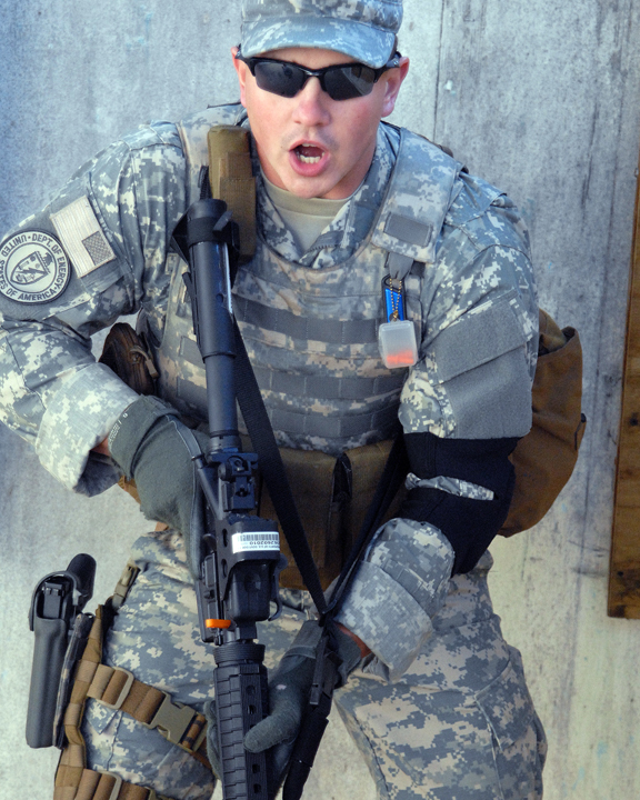 Protective Forces Live Fire Shoot House Training at Savannah River Site.